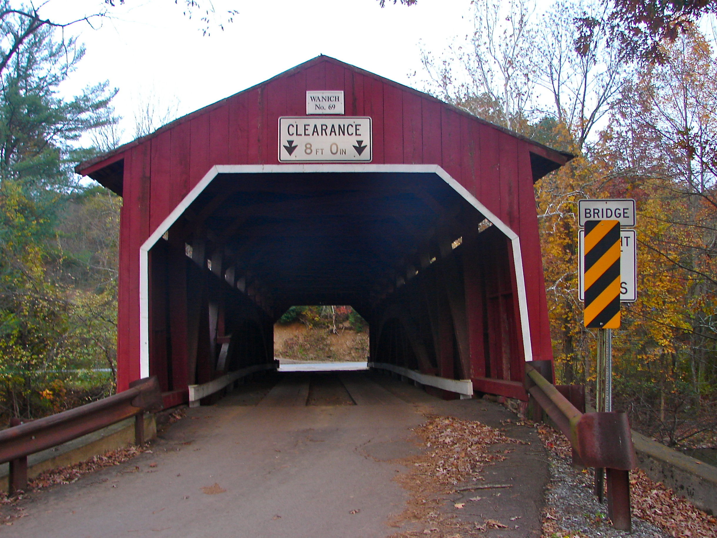 Wanich Covered Bridge No. 69 on the NRHP since November 29, 1979. Off Pennsylvania Route 42, north of Fernville in Hemlock and Mount Pleasant Townships, Columbia County, Pennsylvania.